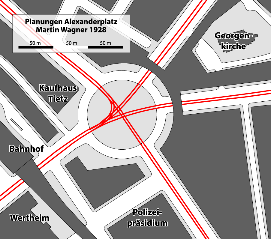 Martin Wagner's plan of 1928 for the restructuring of the Alexanderpatz